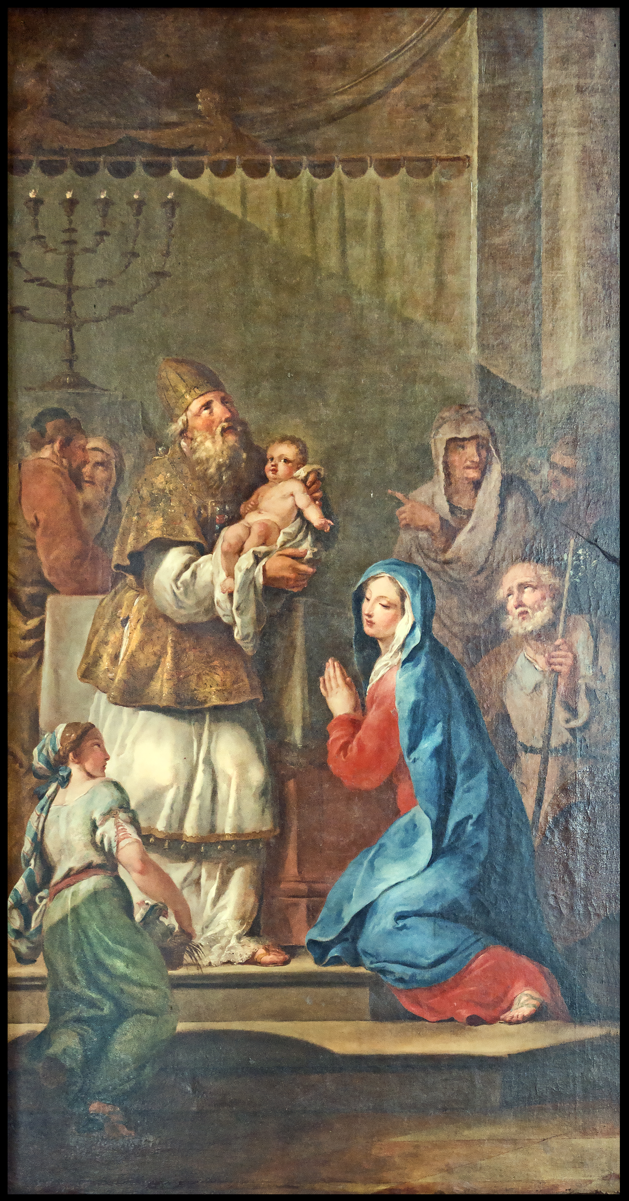 San Geremia Venice - Purificazione di Maria by Pietro Antonio Novelli in 1804